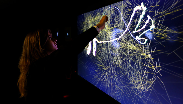 Curving Time / Interactive Touch Screen Installation